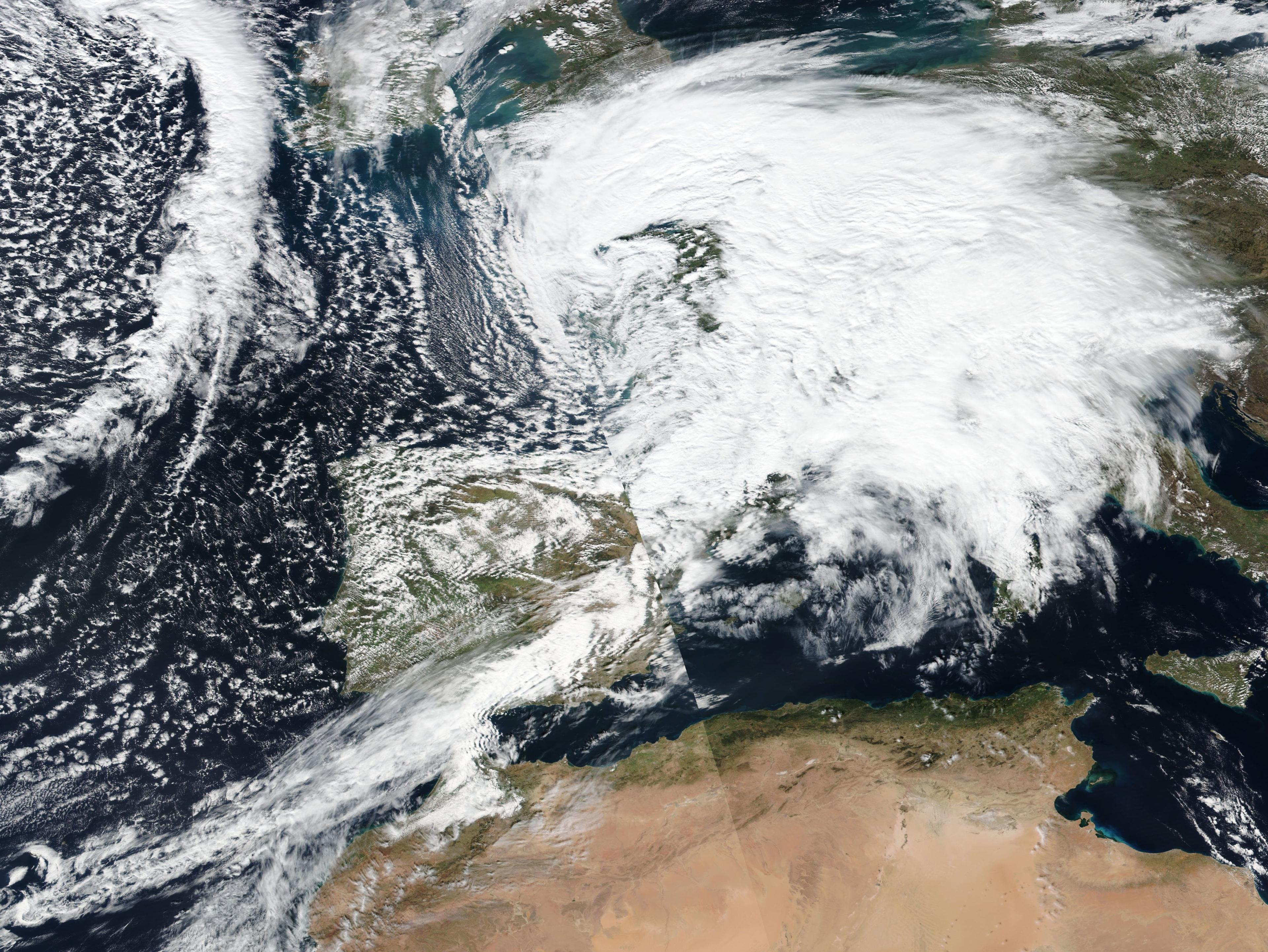 Storm Norberto, of the 2019-20 European windstorm season, covering much of Europe on 5 March 2020.